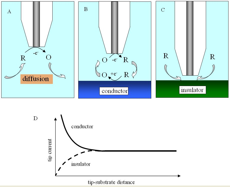 Fig. 3. Feedback modes: (A) bulk oxidation - no feedback, (B) oxidation near a perfect conductor - positive feedback, (C) oxidation near a perfect insulator - negative feedback. (D) Approach curves corresponding to B and C.